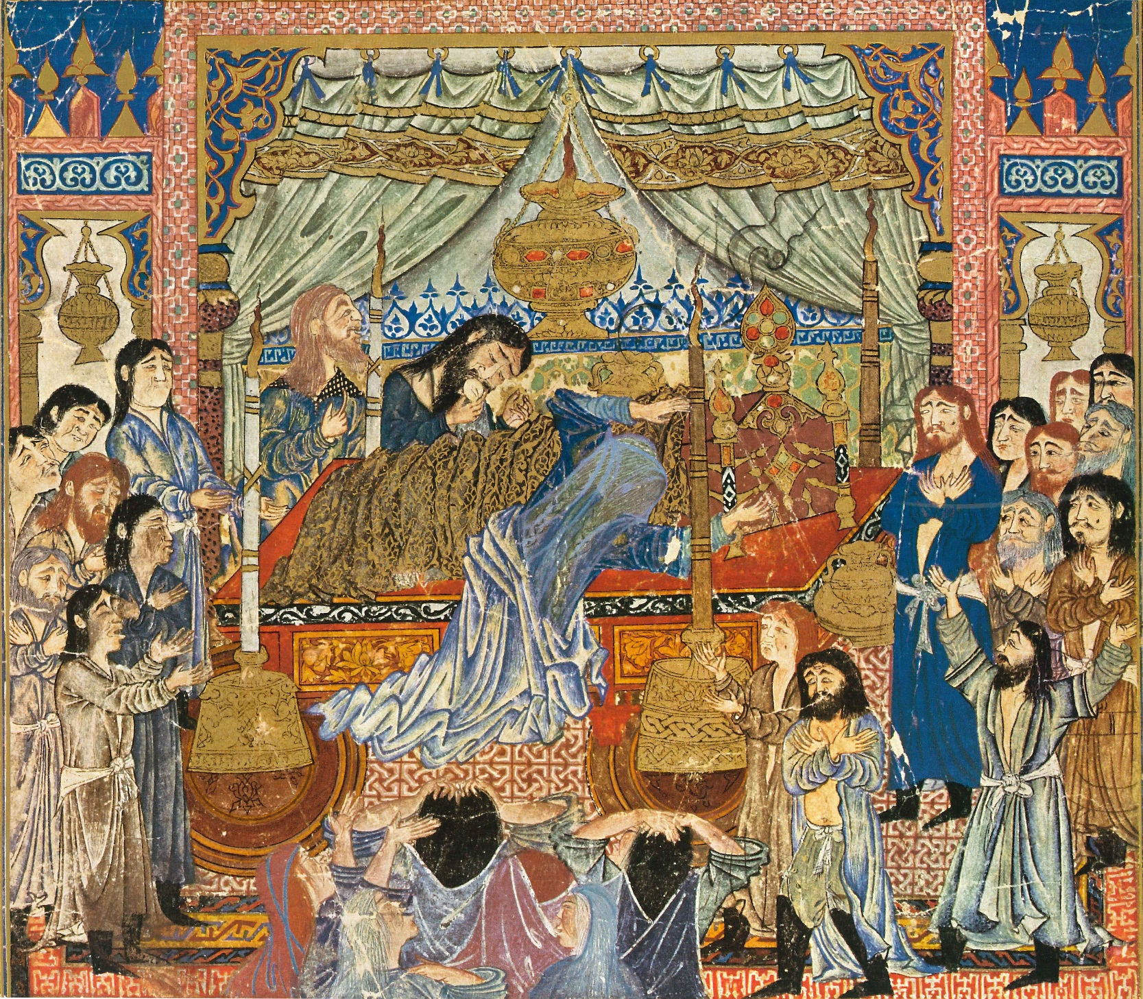 The death of Alexender in Shahnameh, painted in Tabriz around 1330 AC, Freer Gallery of Art, Washington, DC, No. 38.3.